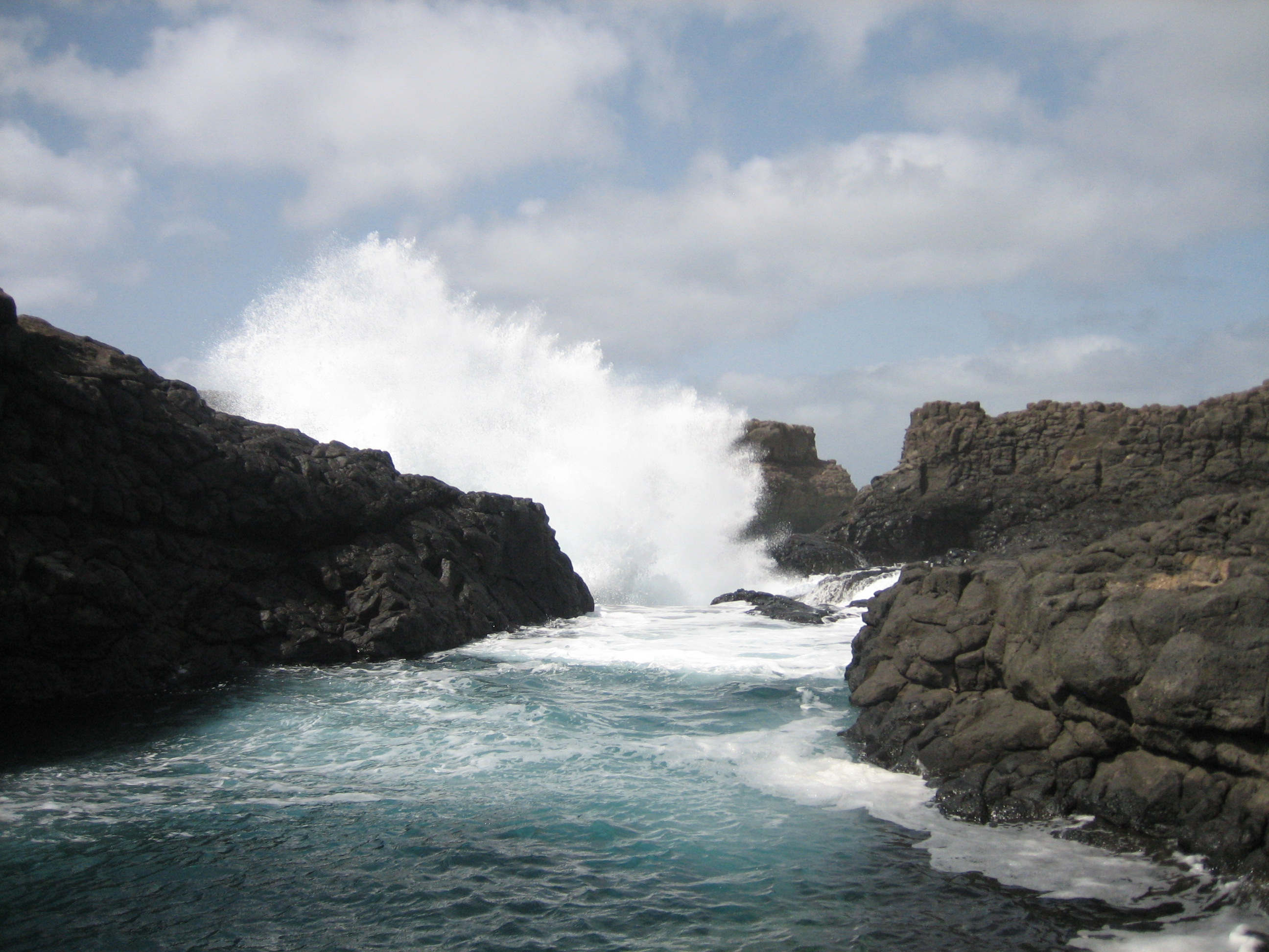 Buracona at the westcoast of Sal, Cape Verde.